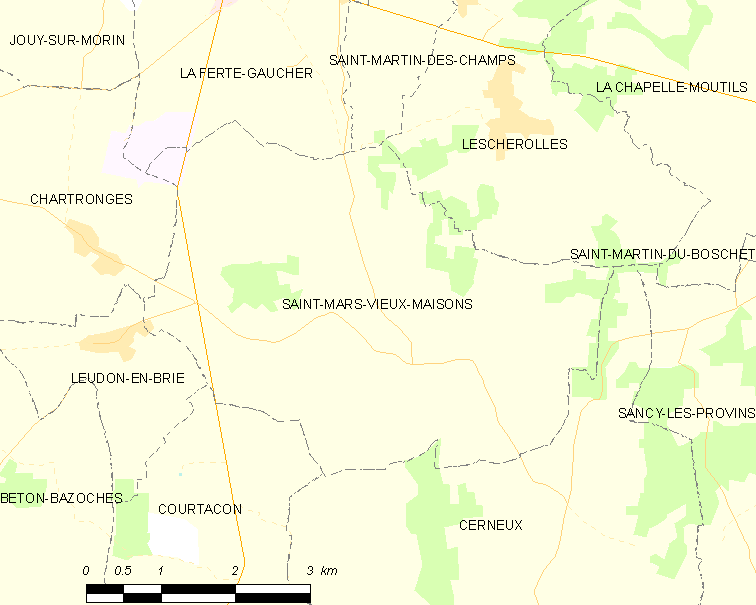 Map of French municipality Saint-Mars-Vieux-Maisons